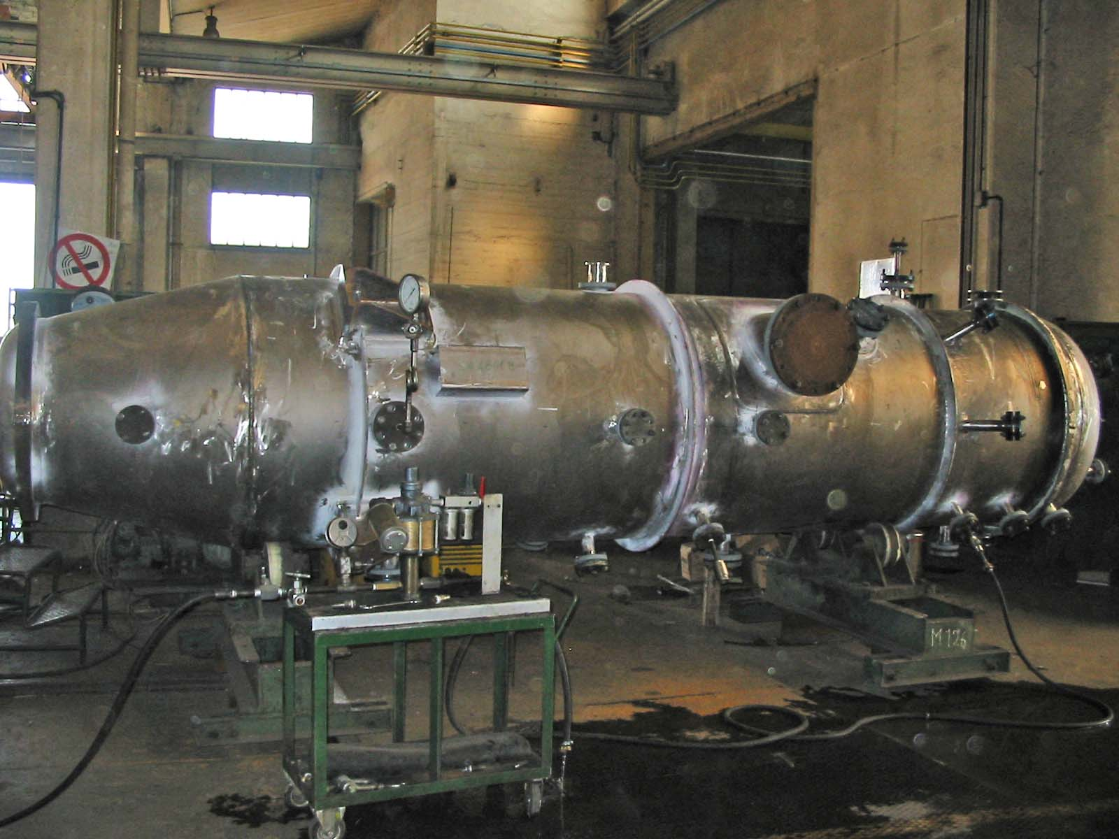 An Oslo type forced circulation evaporator under hydraulic test